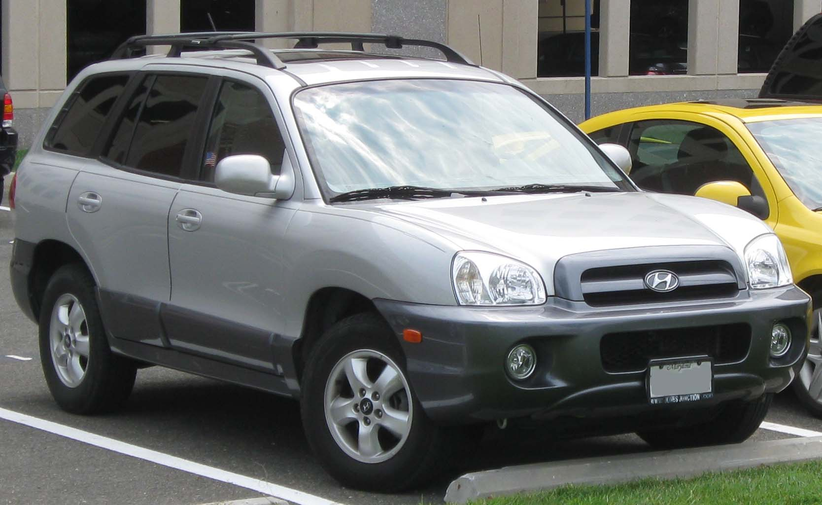 2005-2006 Hyundai Santa Fe photographed in College Park, Maryland, USA.